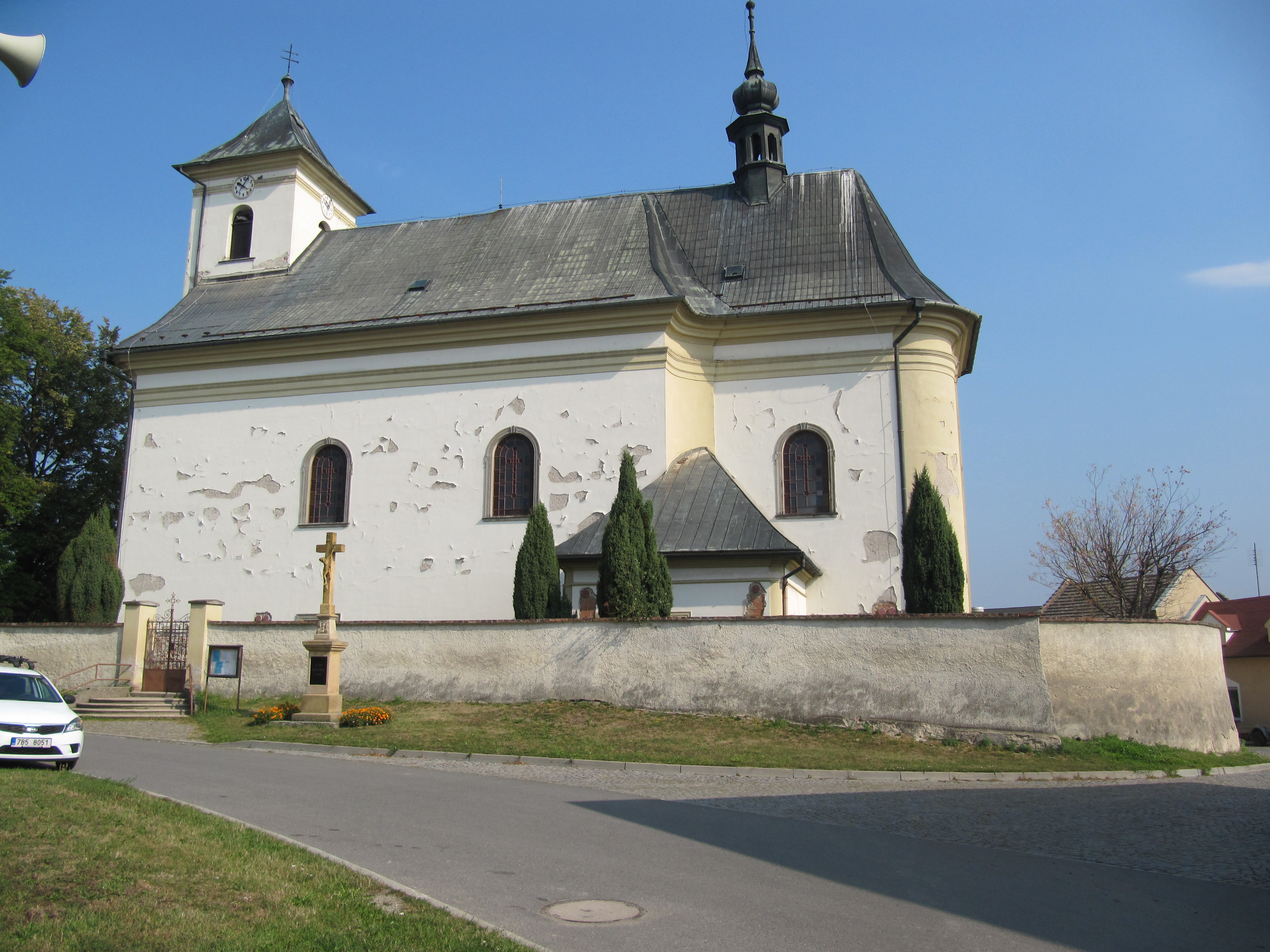 Horka nad Moravou in Olomouc District, Czech Republic. Church of St. Nicholas.